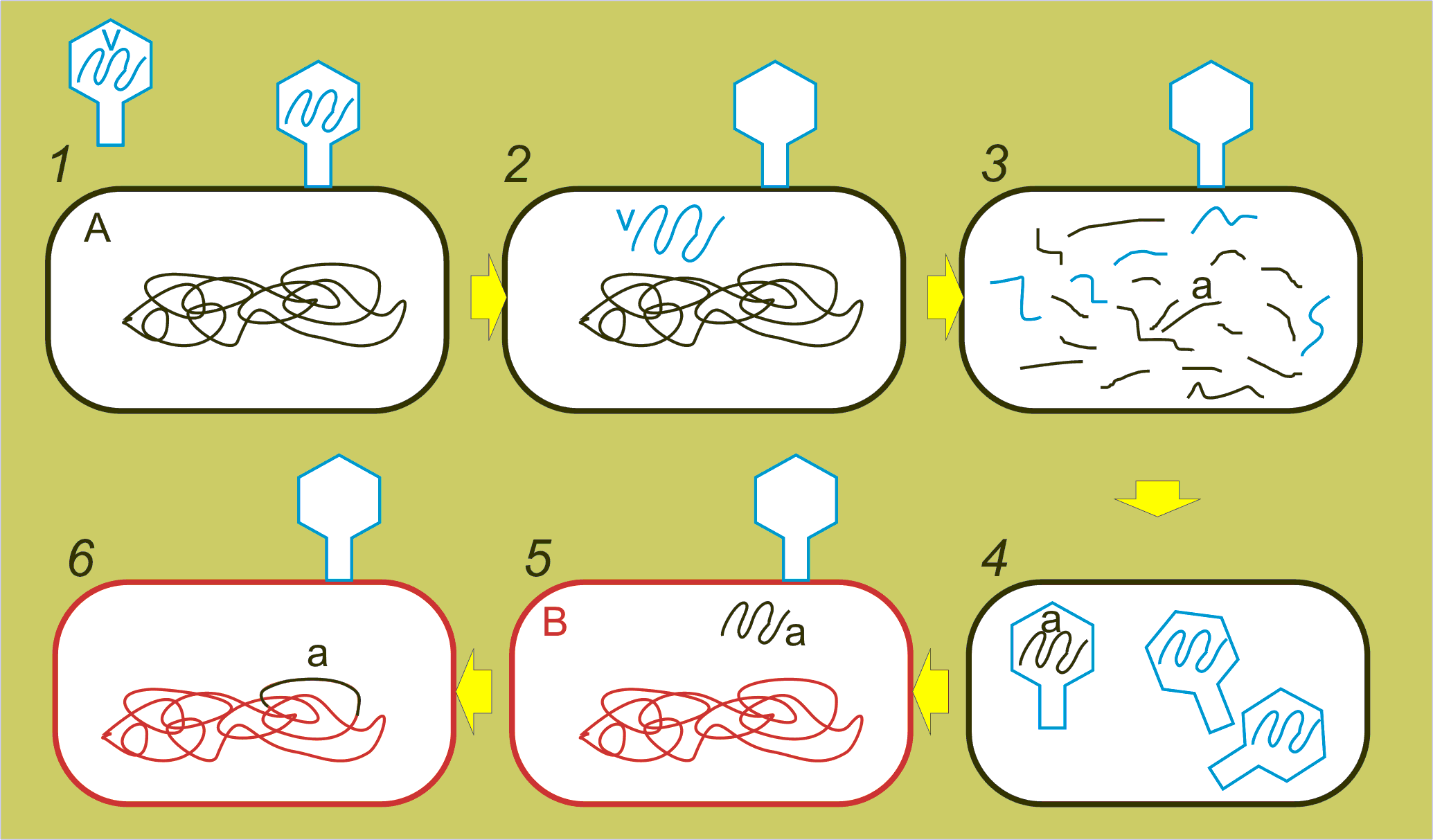 Diagram of General transduction